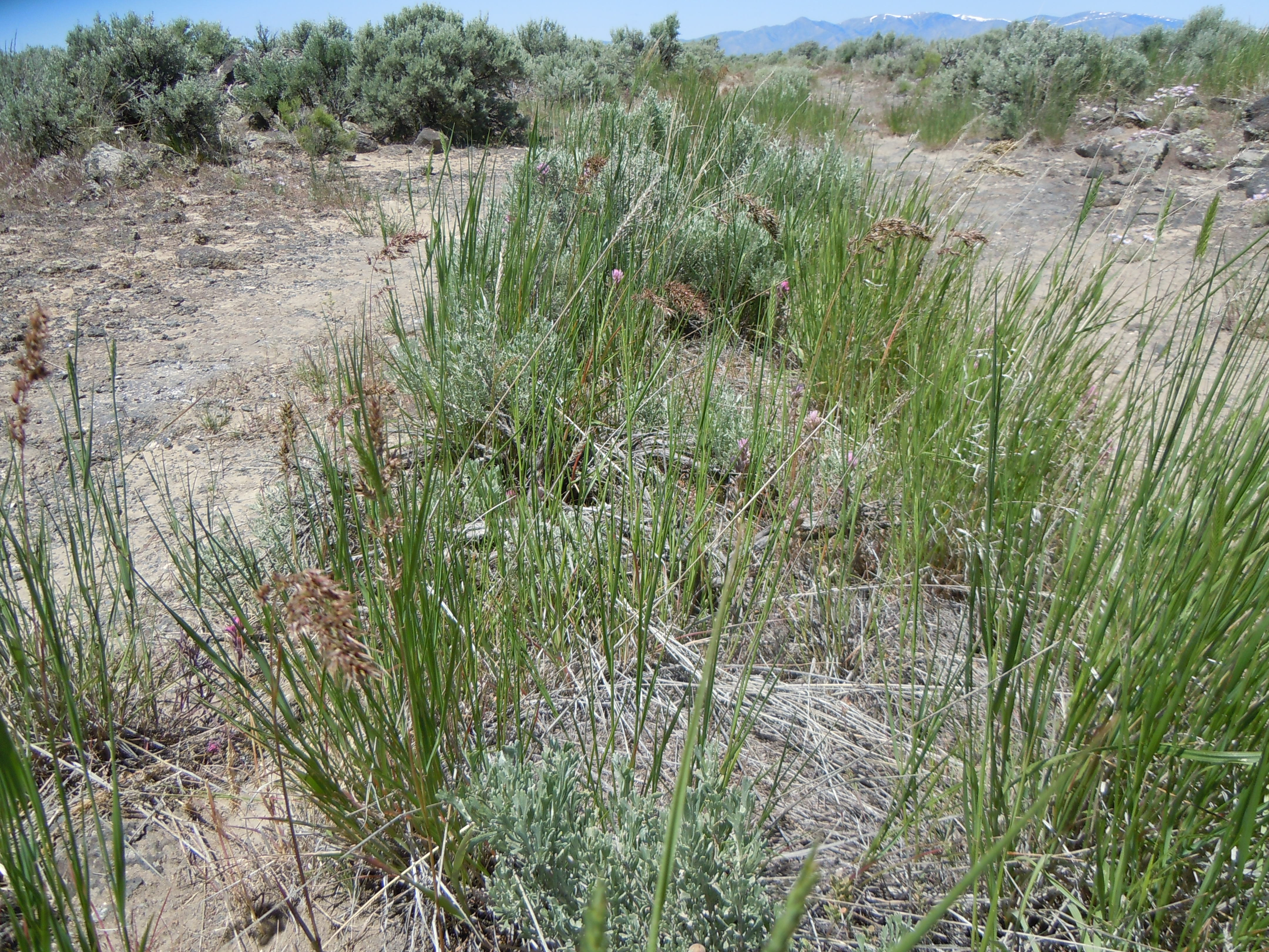 Poa bulbosa exemplifies the exotic species inhabiting the interior roads on the INL lands. They add to rather than replace the standing native plant diversity.